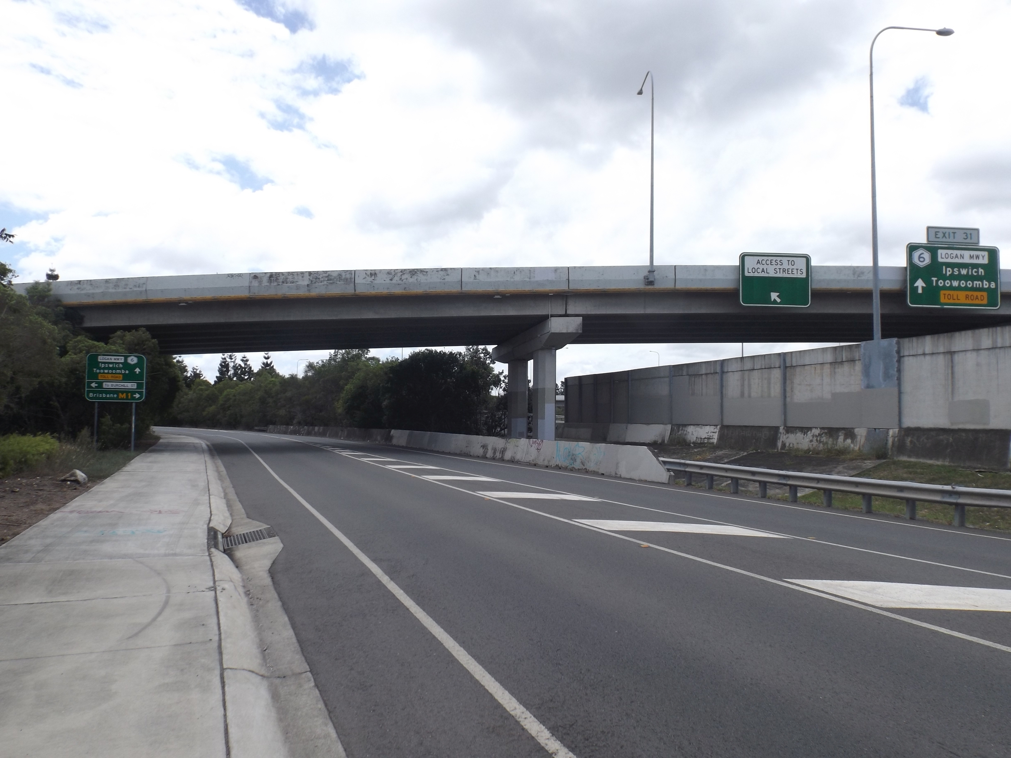 Photo of Ipswich Motorway intersection with Pacific Motorway at Loganholme, City of Logan, Queensland, Australia.